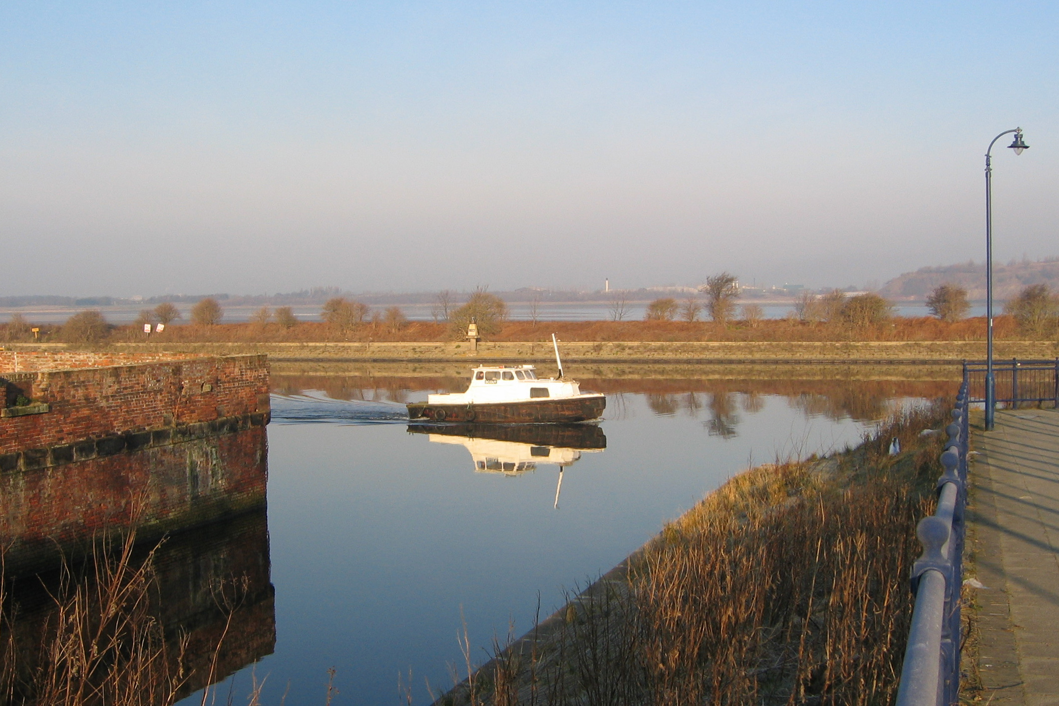 Photograph taken by me on 2 March 2004. This is the terminus of the Bridgewater canal as it enters the Manchester Ship Canal.